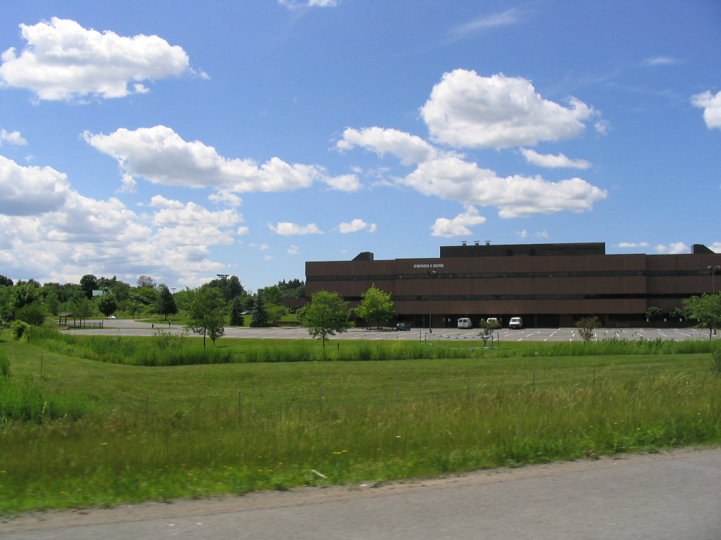 photo of the O'Brien & Gere office building off Interstate 481 in DeWitt, NY, taken by me on June 20, 2004